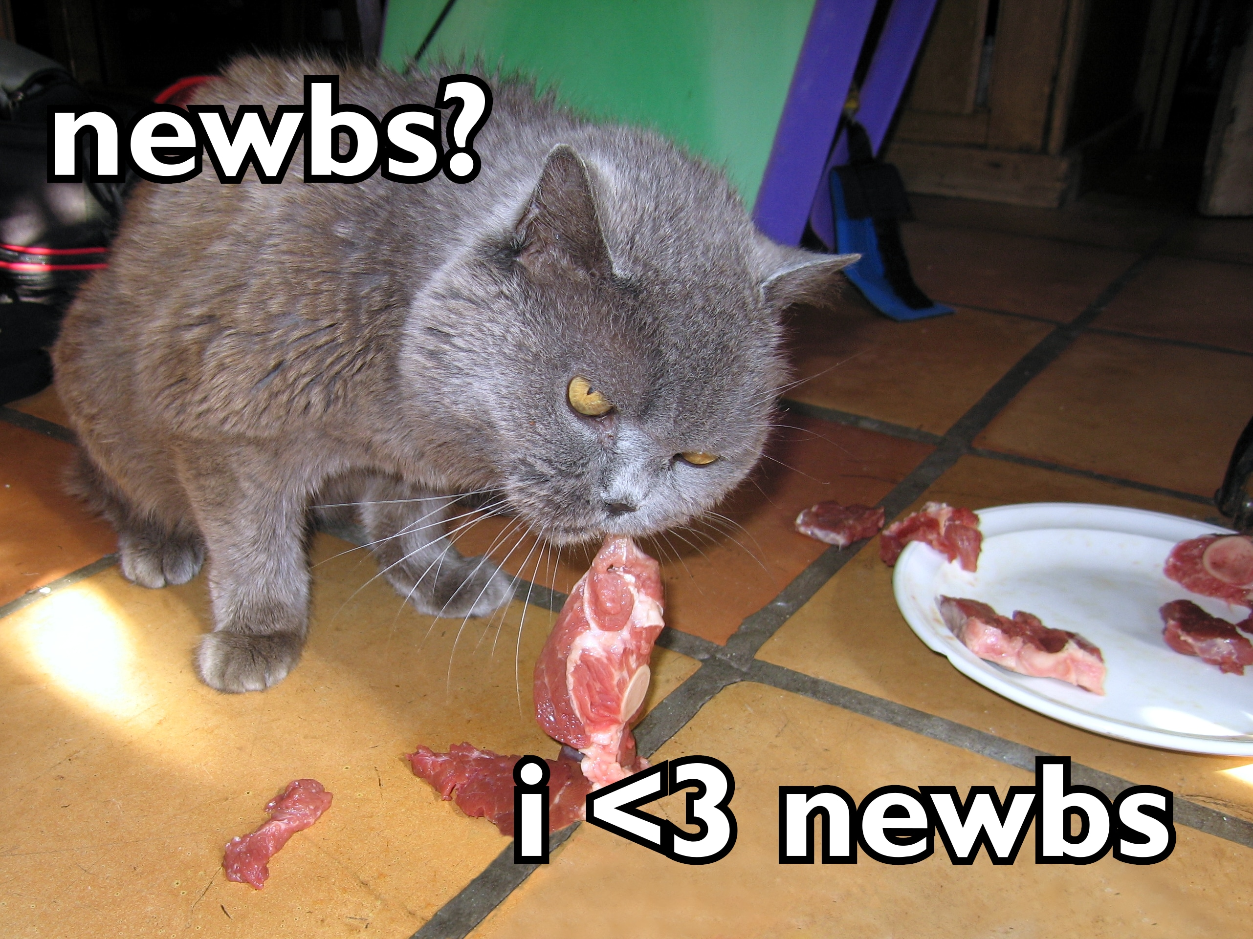 A lolcat with a dark sense of humor. Based on Wikipedia:Newcomers are delicious, so go ahead and bite them.